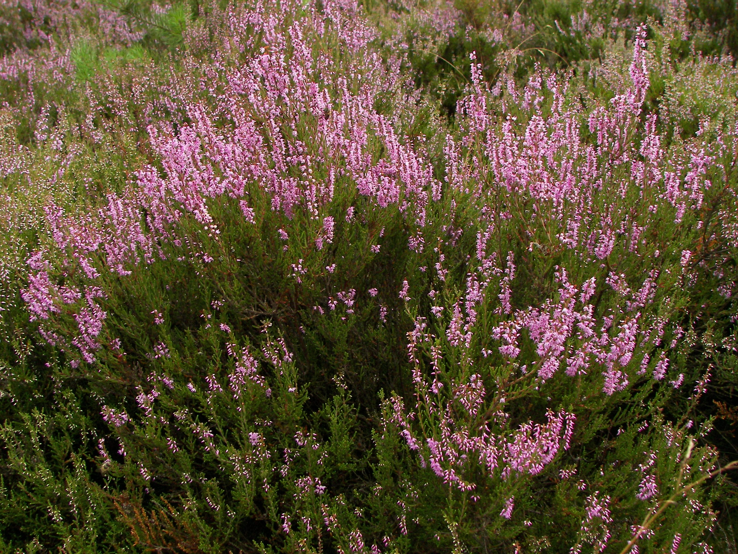 Heather (Calluna vulgaris) near Niederhaverbeck, Lower Saxony, Germany